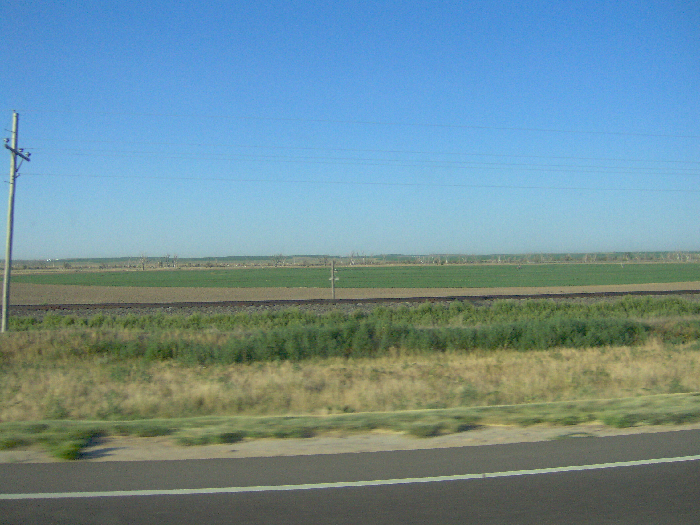 View of the Arkansas River between the Kansas cities of Dodge City and Garden City, likely in Gray County. The effect of drought lowering the river levels can be seen in the line of dead trees marking the river. Picture taken by Nyttend on 22 July 2006.